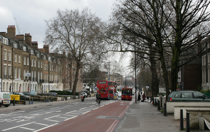 City Road, London. Looking east from Angel.